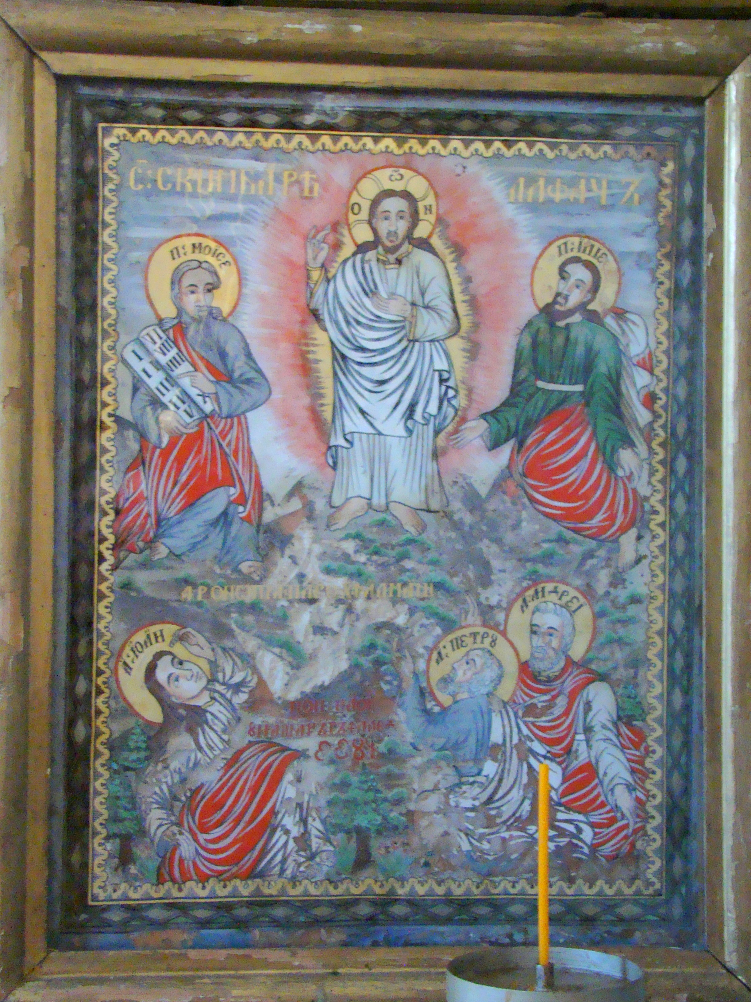 Church of the Transfiguration in Almașu Mare, Alba county, Romania